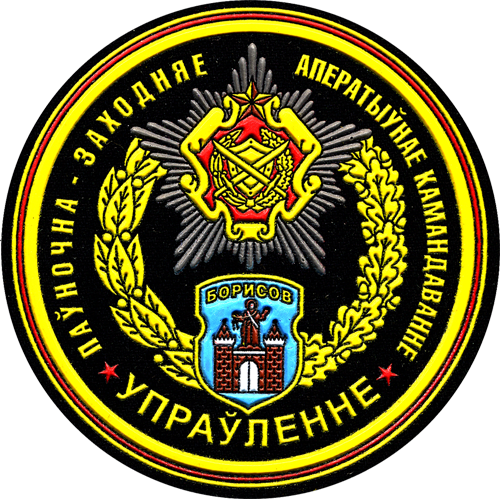 Insignia of Belarus North Western Operational Command (SZOK)